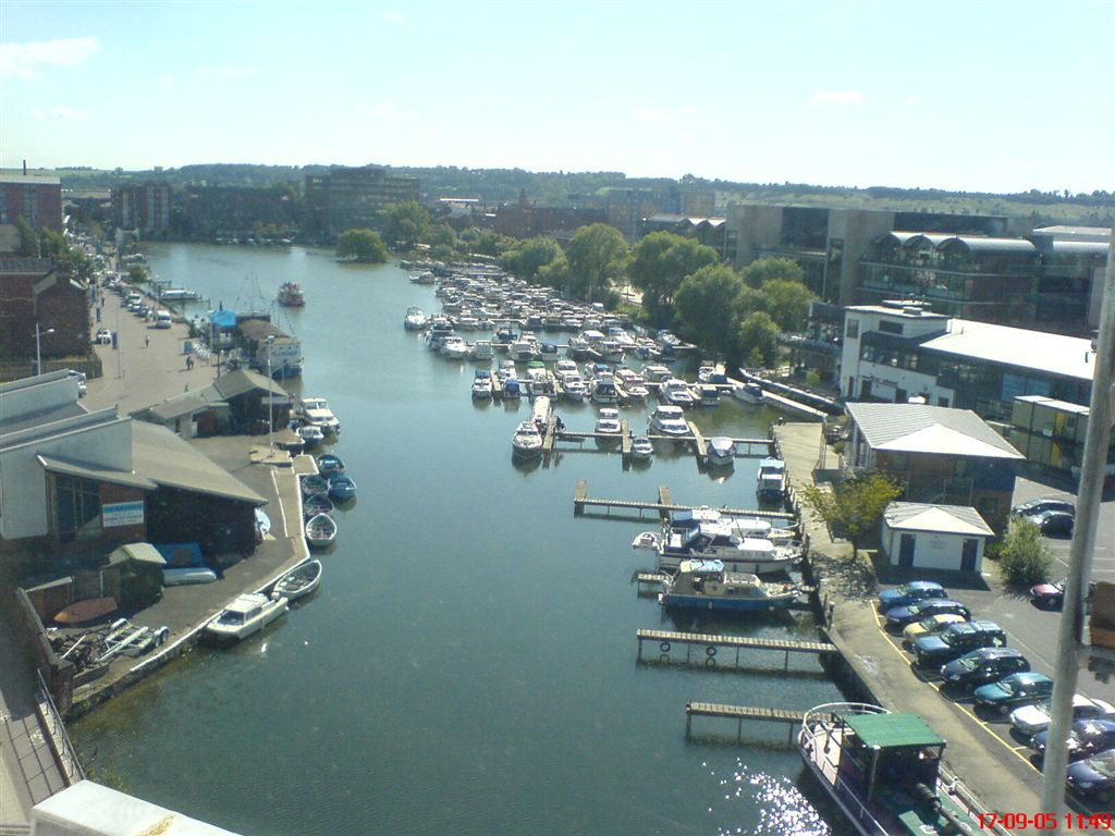 A view of the East side of the pool, overlooking the Sea Cadets. The main university buildings are to the right. Taken using a Sony Ericcson K750i from the balcony of a student flat.